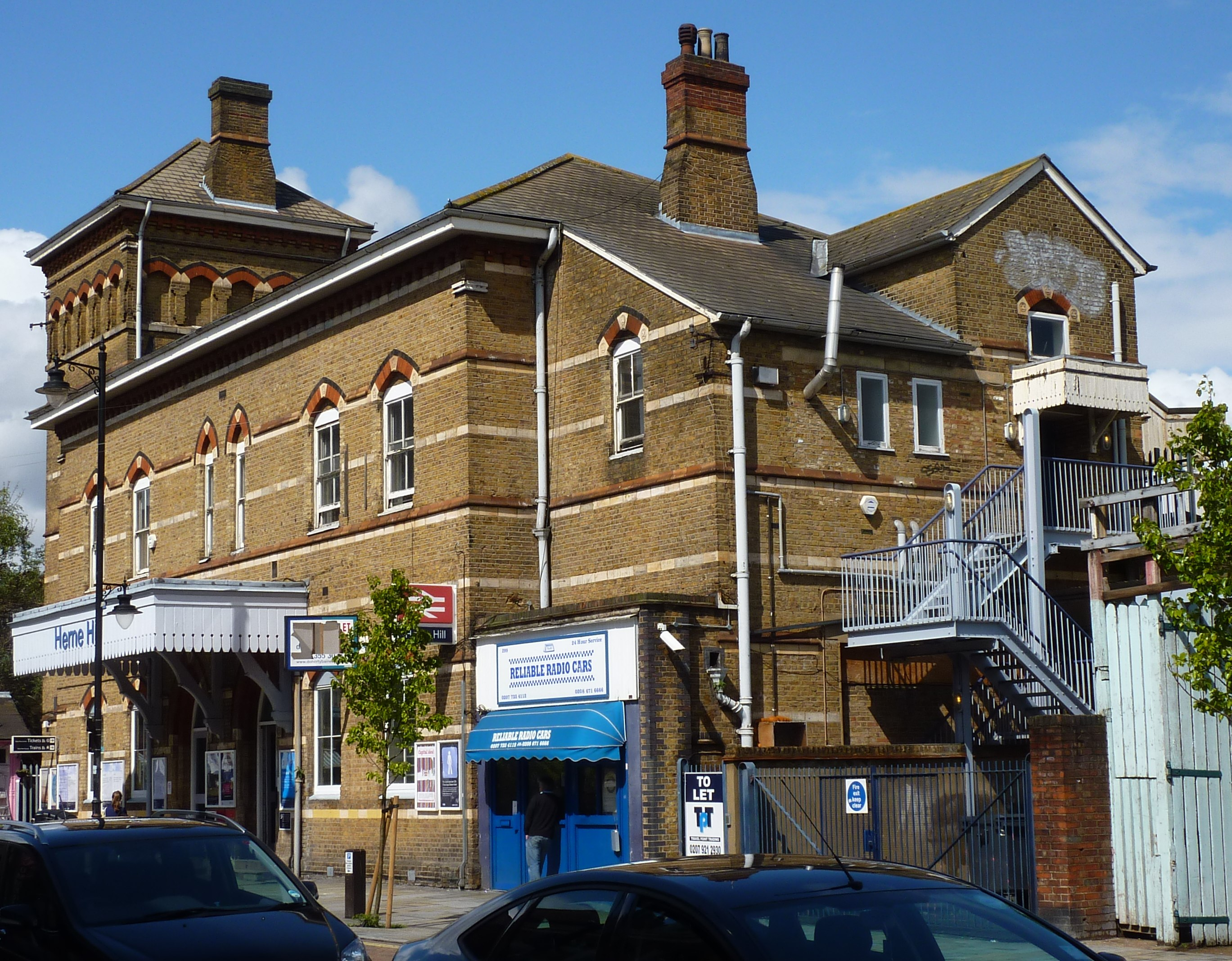 Herne Hill railway station, as seen from the southern end of Railton Road. The stairway to the right and the associated entrance (covered by a canopy) were installed in 1991 when the upper floor of the station was converted into rented office space. The upper floor was in passenger use until 1925; it was accessed via a stairway on the other side of the building (now replaced with a modern structure and used as a fire escape).